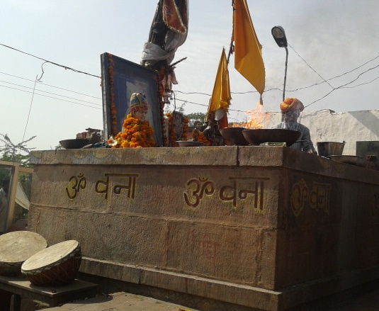 Om Banna, .i.e. Om Singh Rathore